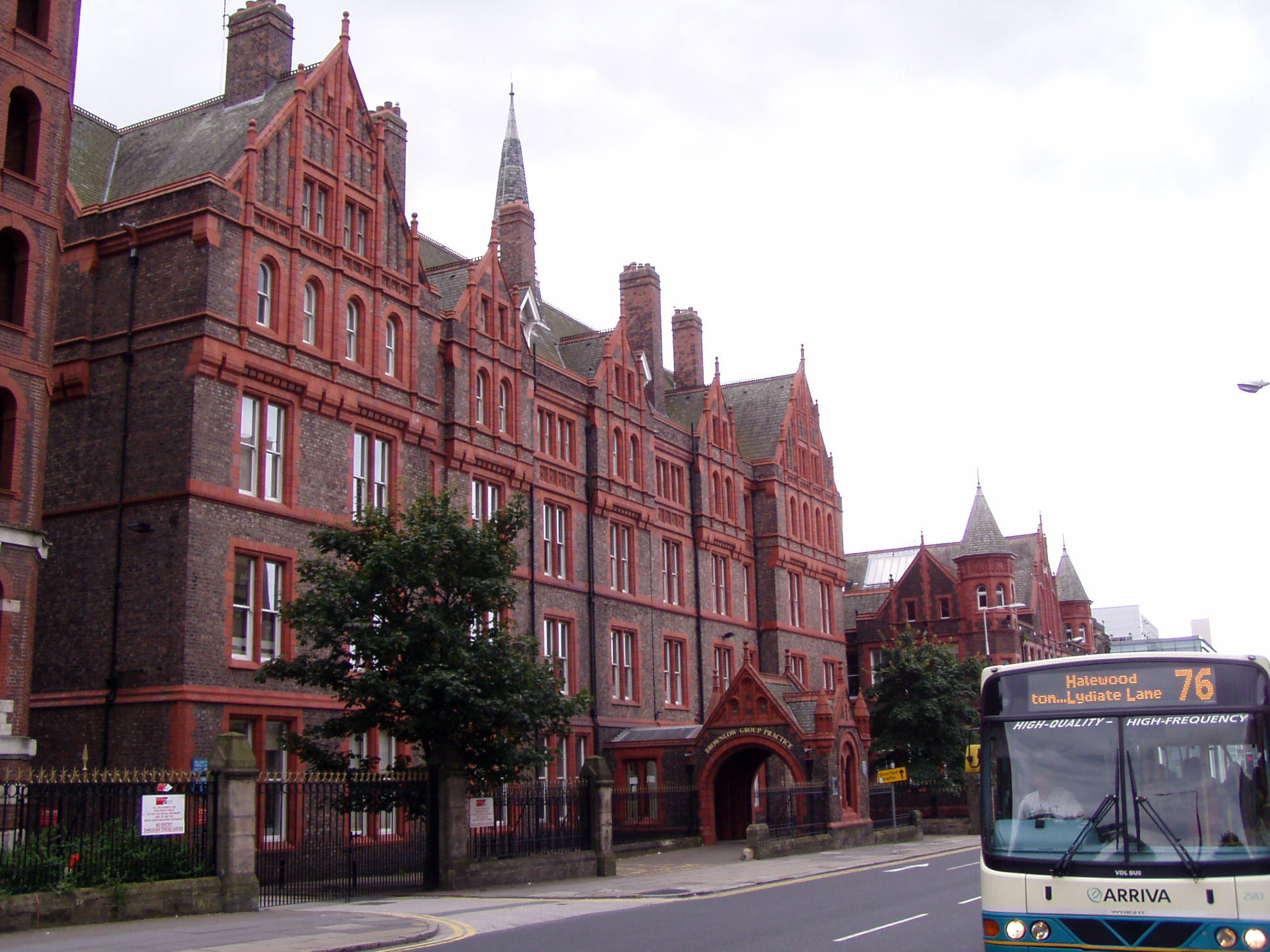 Royal Liverpool Infirmary